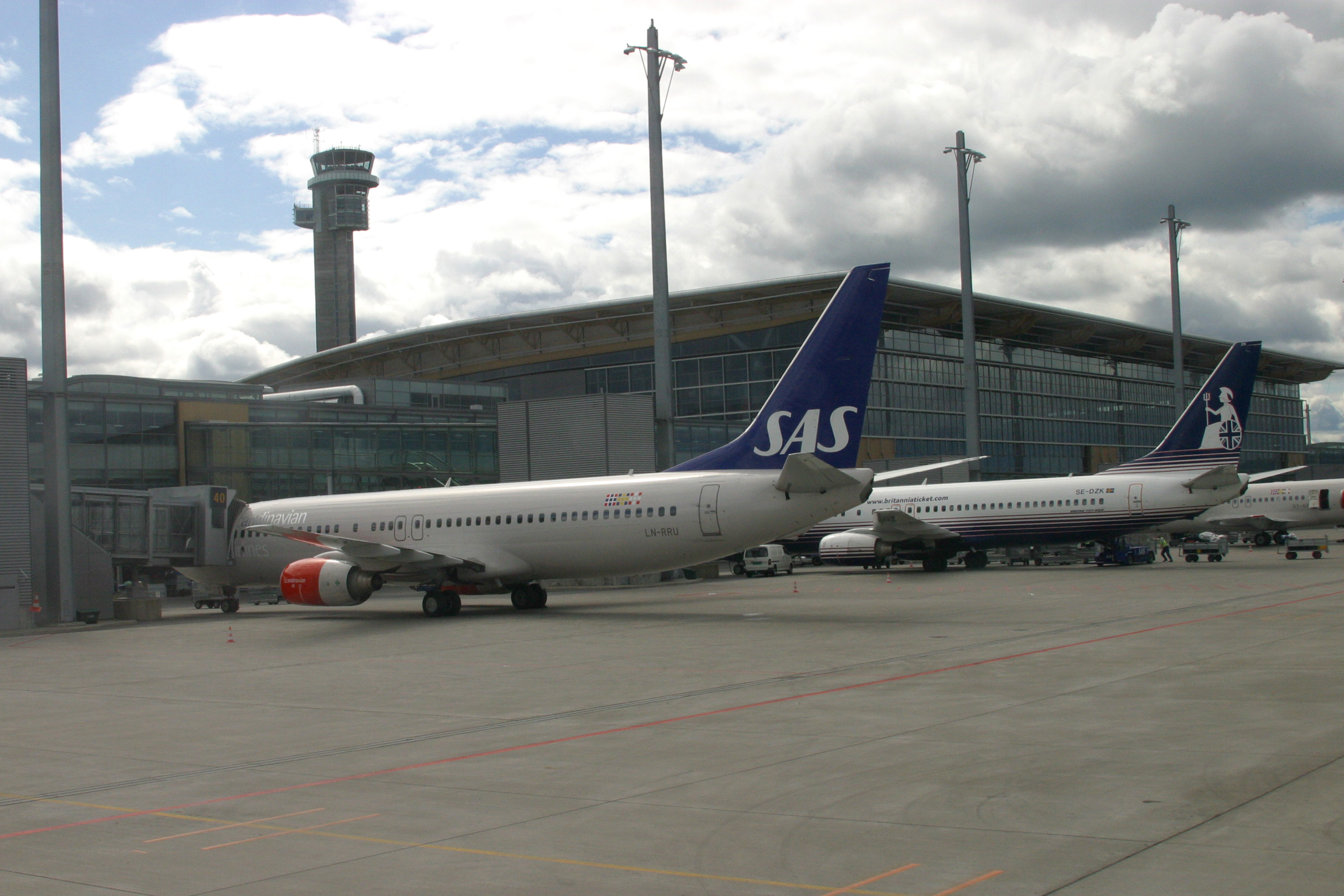 Picture of Oslo Airport (OSL)